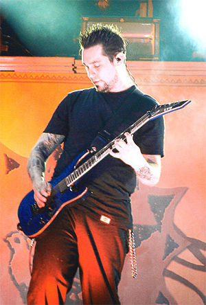 John Lecompt from Evanescence